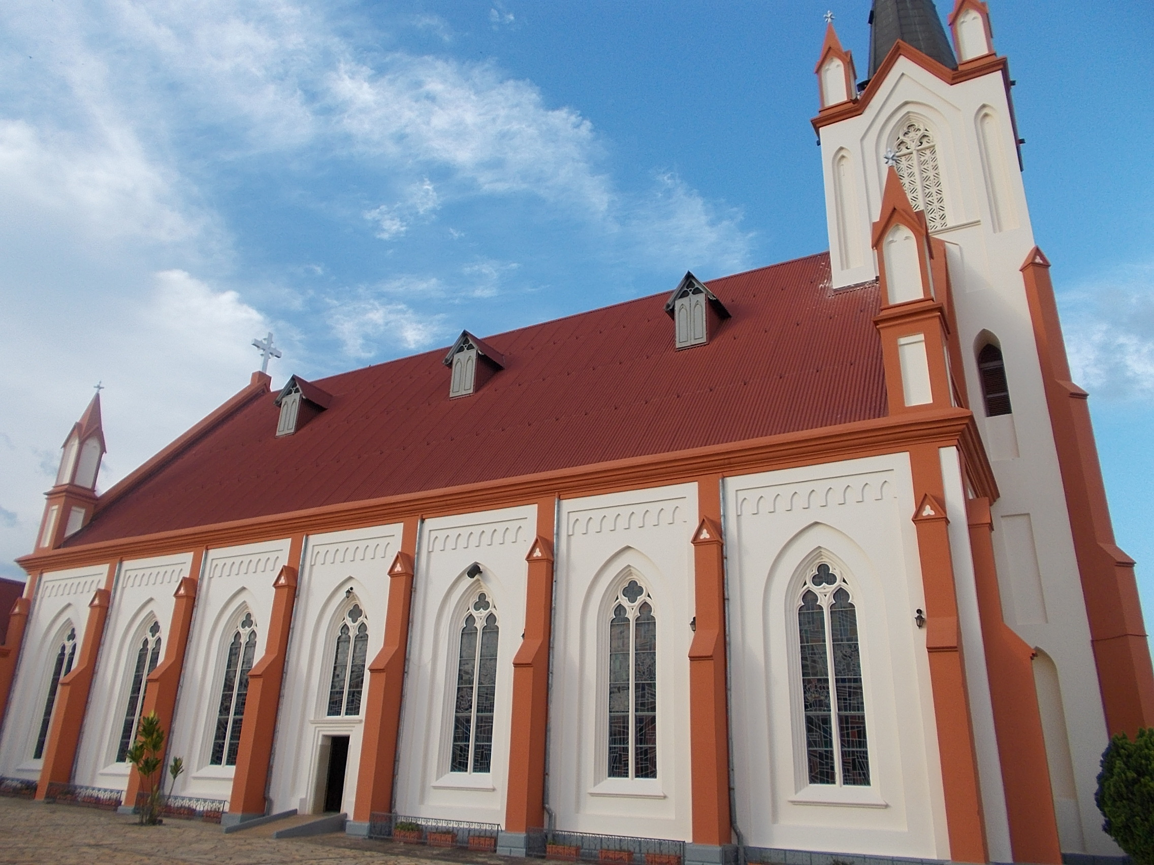 Church of Kpalimé